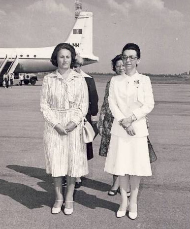 Visit to Bulgaria. Elena Ceausescu (left) with Lyudmila Zhivkova.